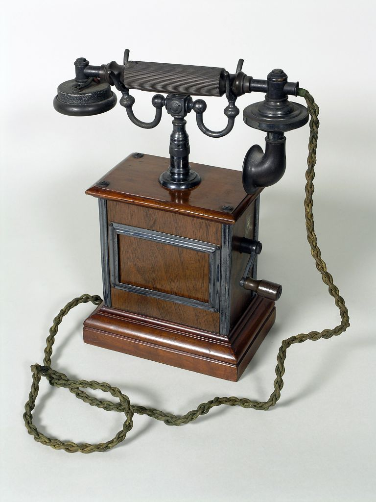 Ericsson Telephone Wooden box, winding handle on one side, receiver on cradle on top. Braided cord with wooden connection box. Ericsson Telephone Co. Ltd., Nottingham Editing Undertaken: Auto Levels, Auto Contrast, Unsharp Mask